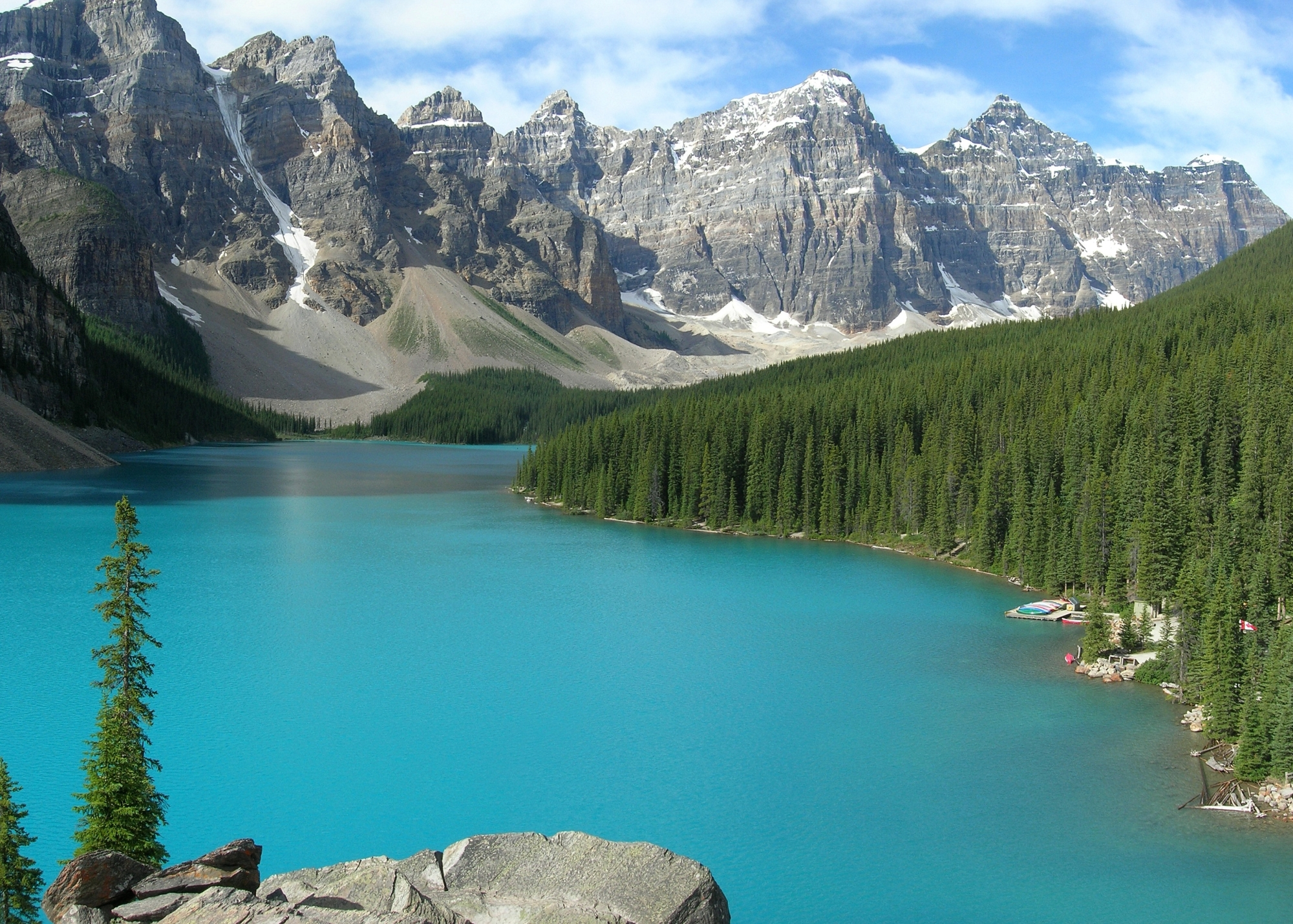 An attraction of the Banff National Park in the canadian province Alberta: the turquoise Moraine Lake seen from a viewpoint at its north bank.